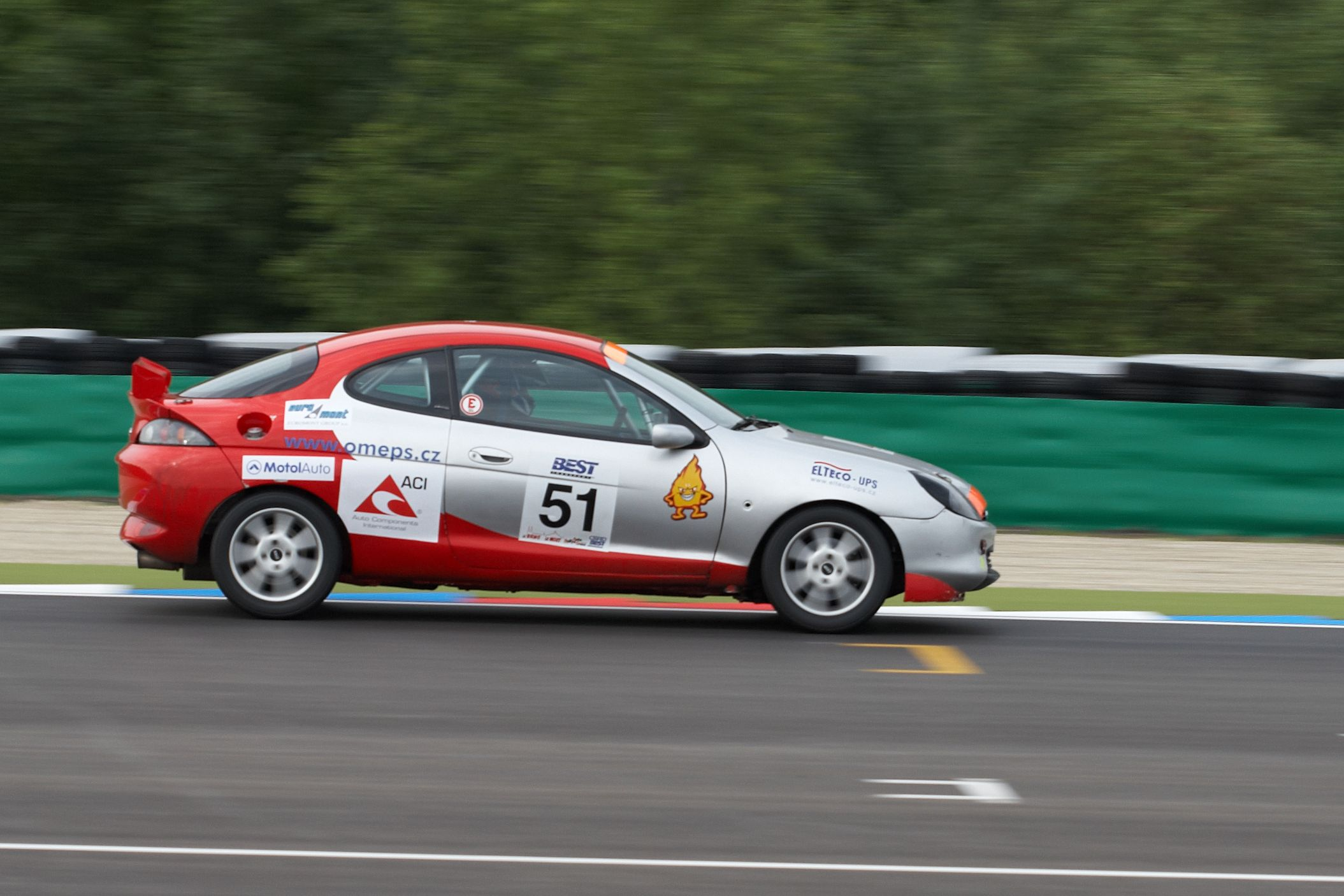 Ford Puma during 12h Le Brno race